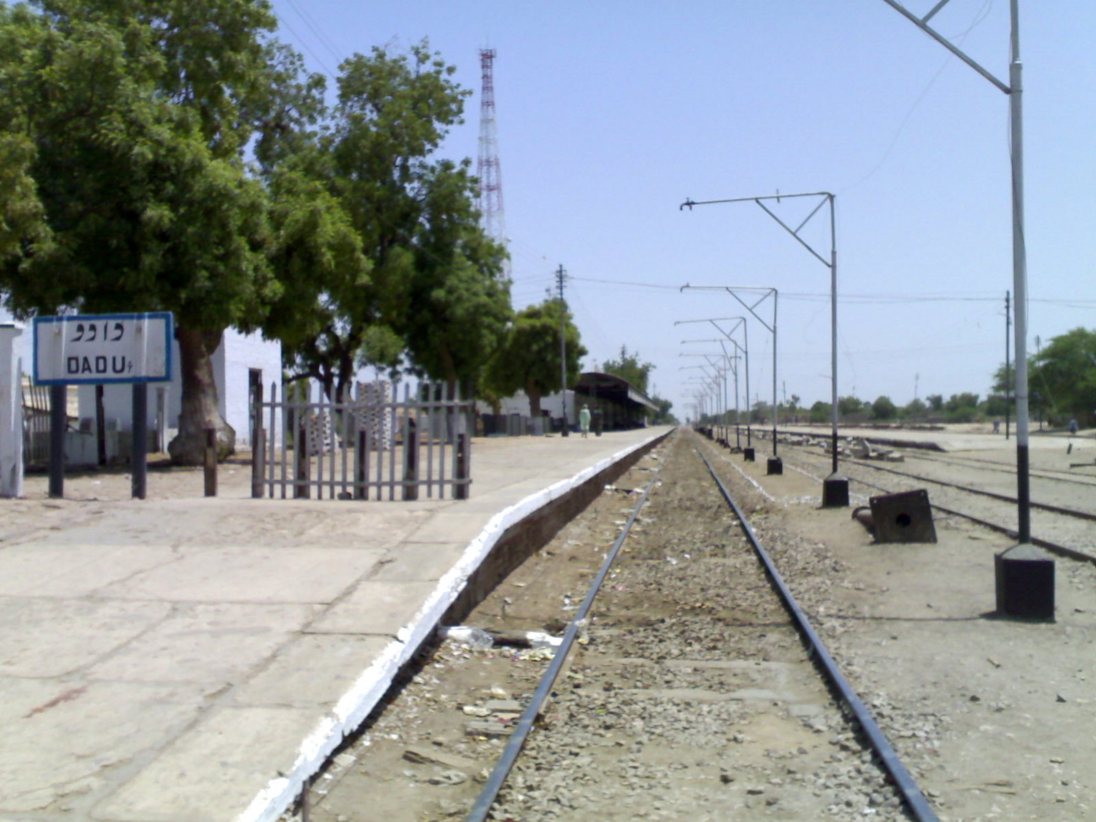 Railway Station Dadu